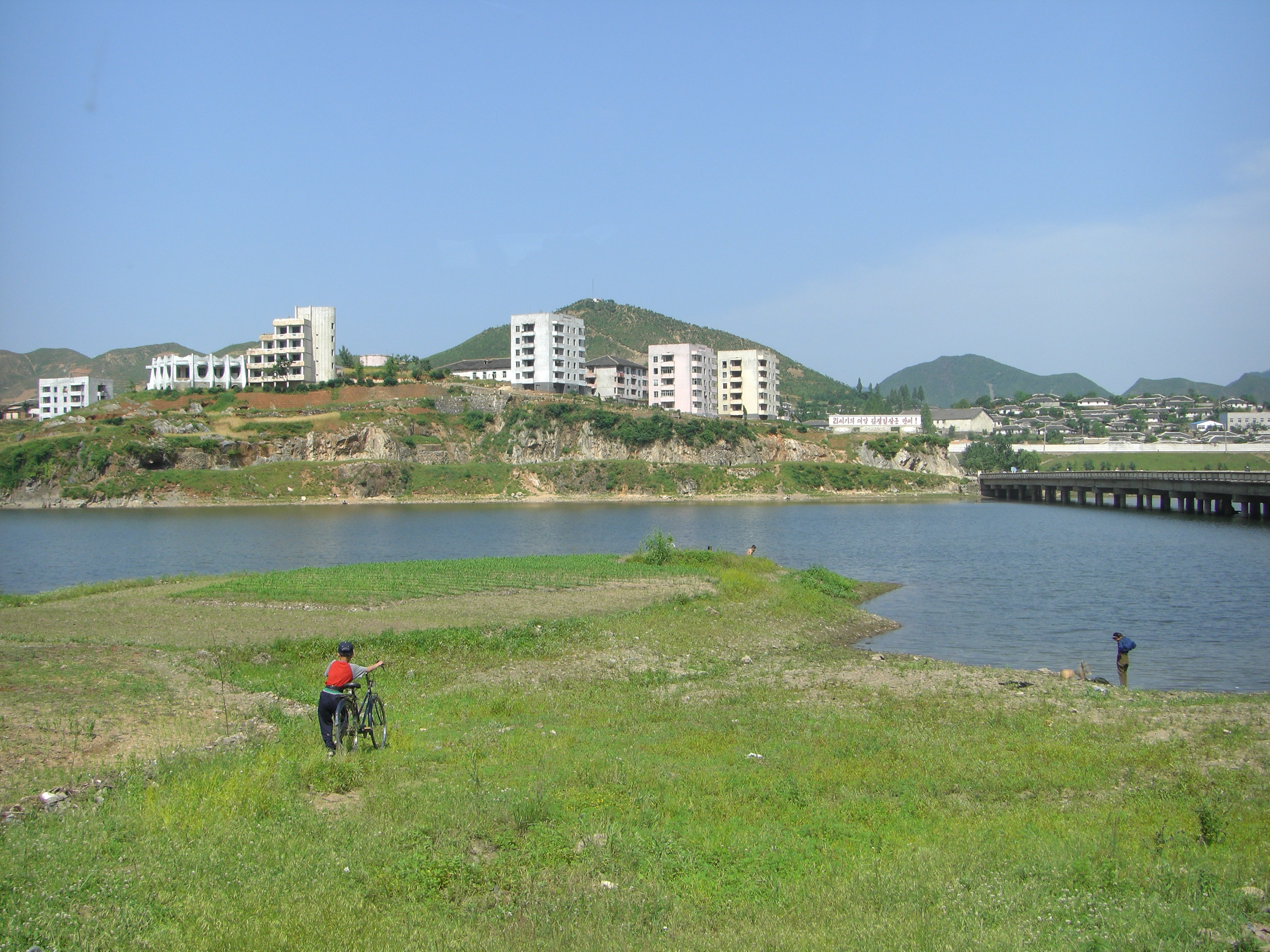 Kŭmch'ŏn, North Korea.